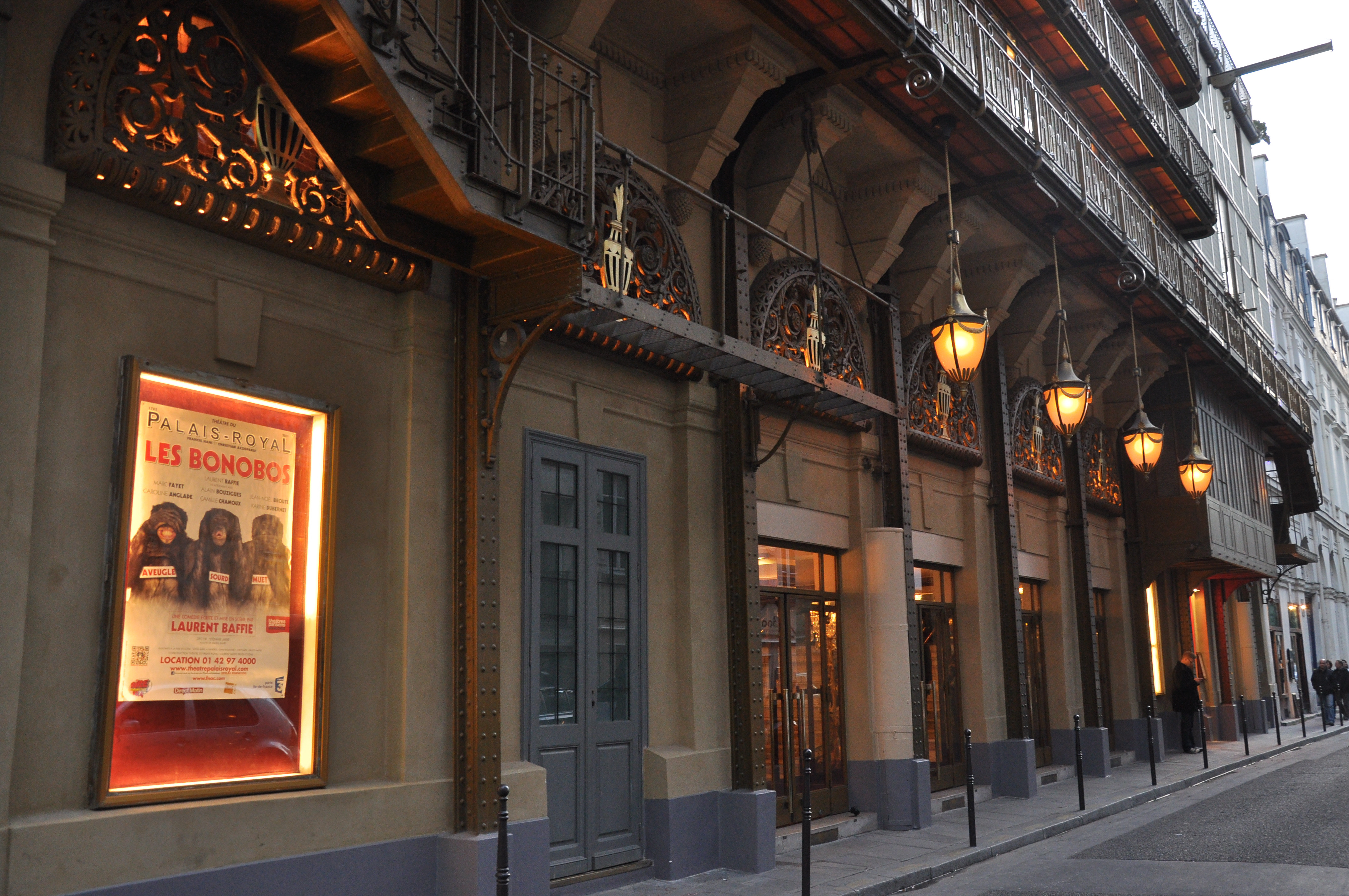 The entrance of the theater Théâtre du Palais-Royal in Paris 1st arrondissement, France. This building is en partie classé, en partie inscrit au titre des Monuments Historiques.